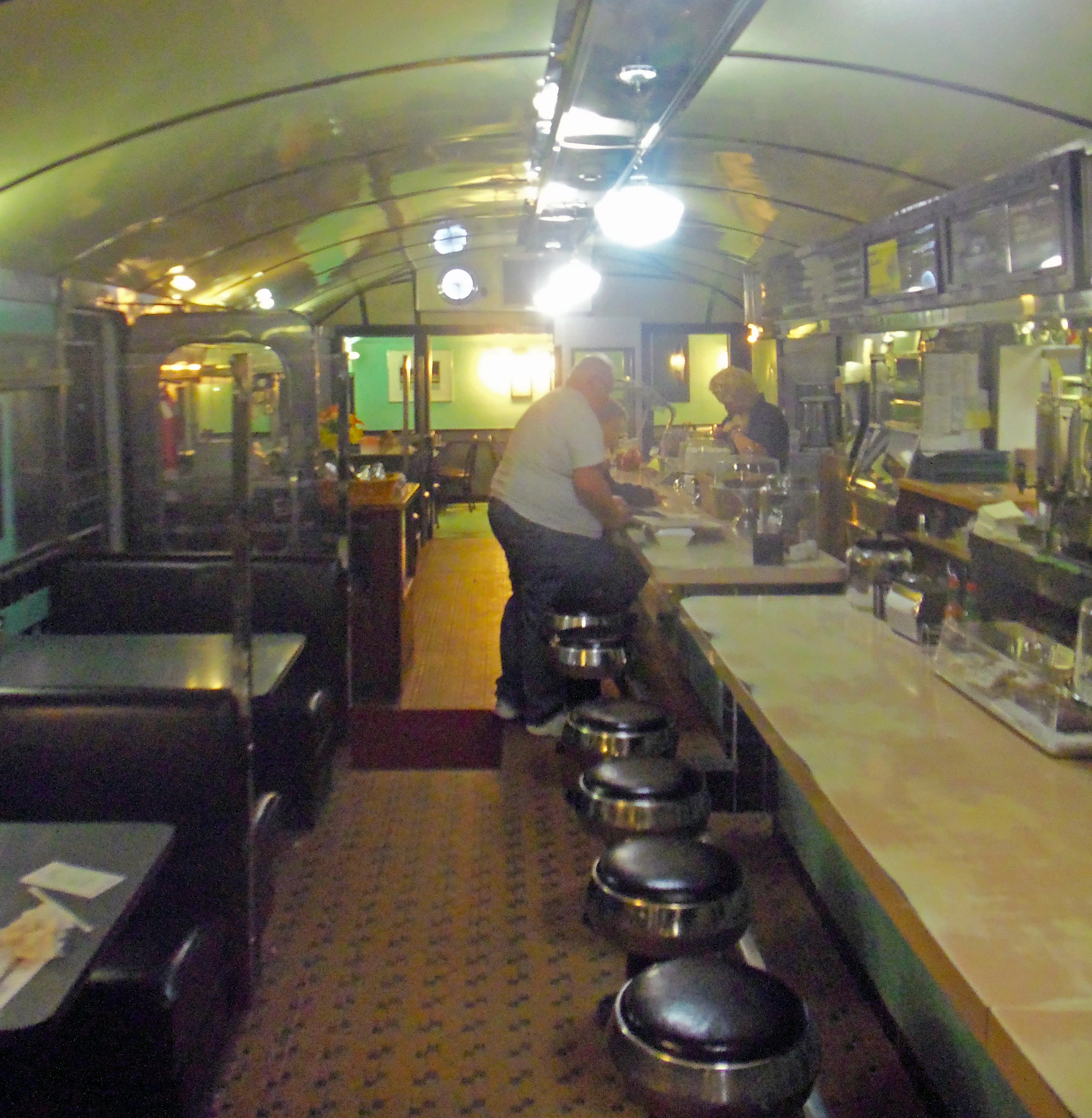 Interior of Village Diner, Red Hook, NY, USA